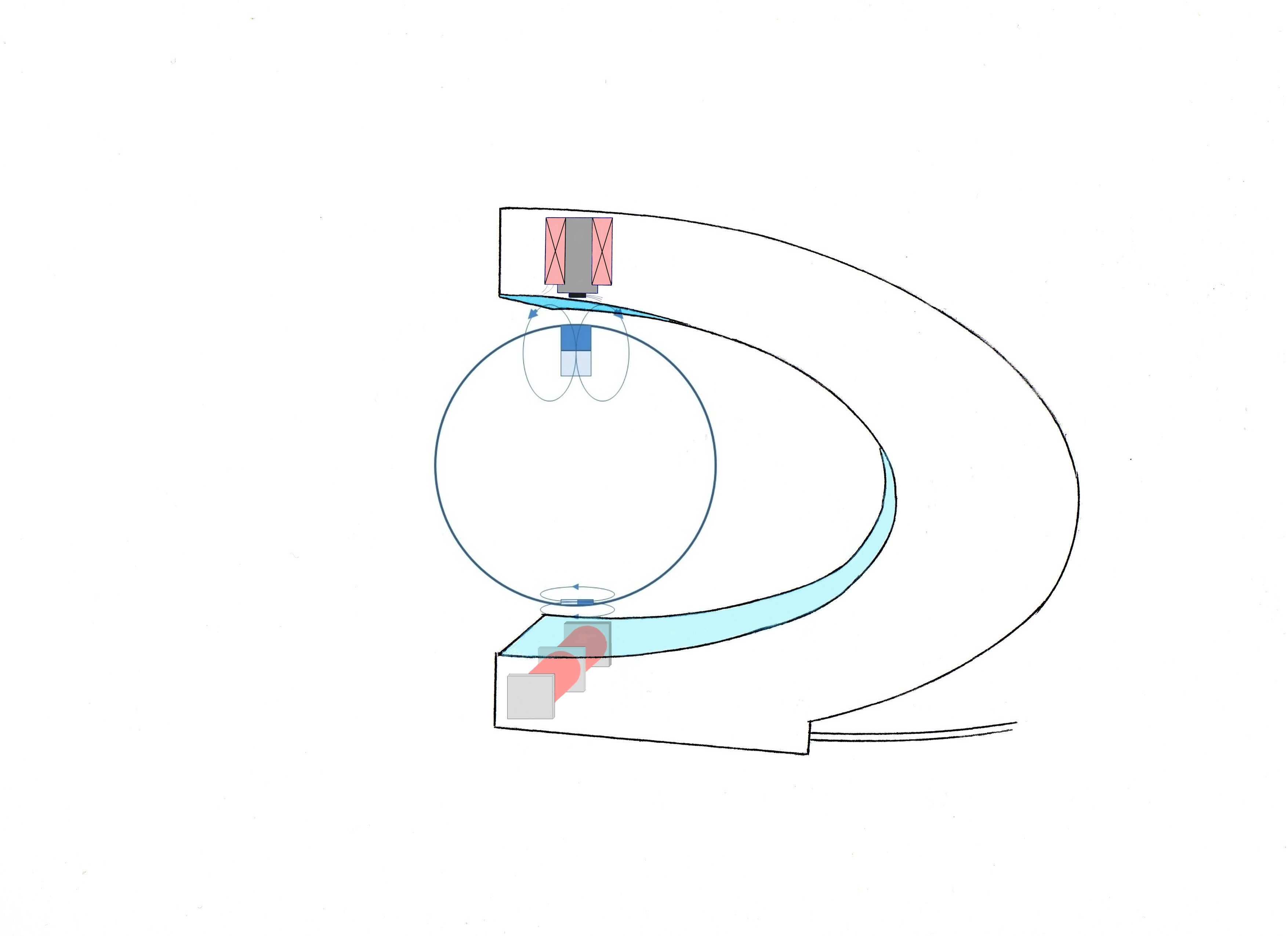 Floating globe with depicted permanent magnets, Hall effect sensor and magnetizing windings.